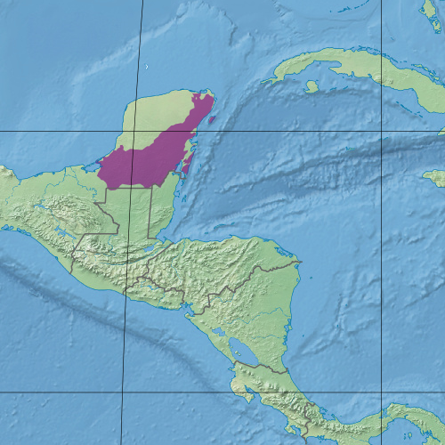 Ecoregion NT0181 - Yucatán moist forests (in purple)